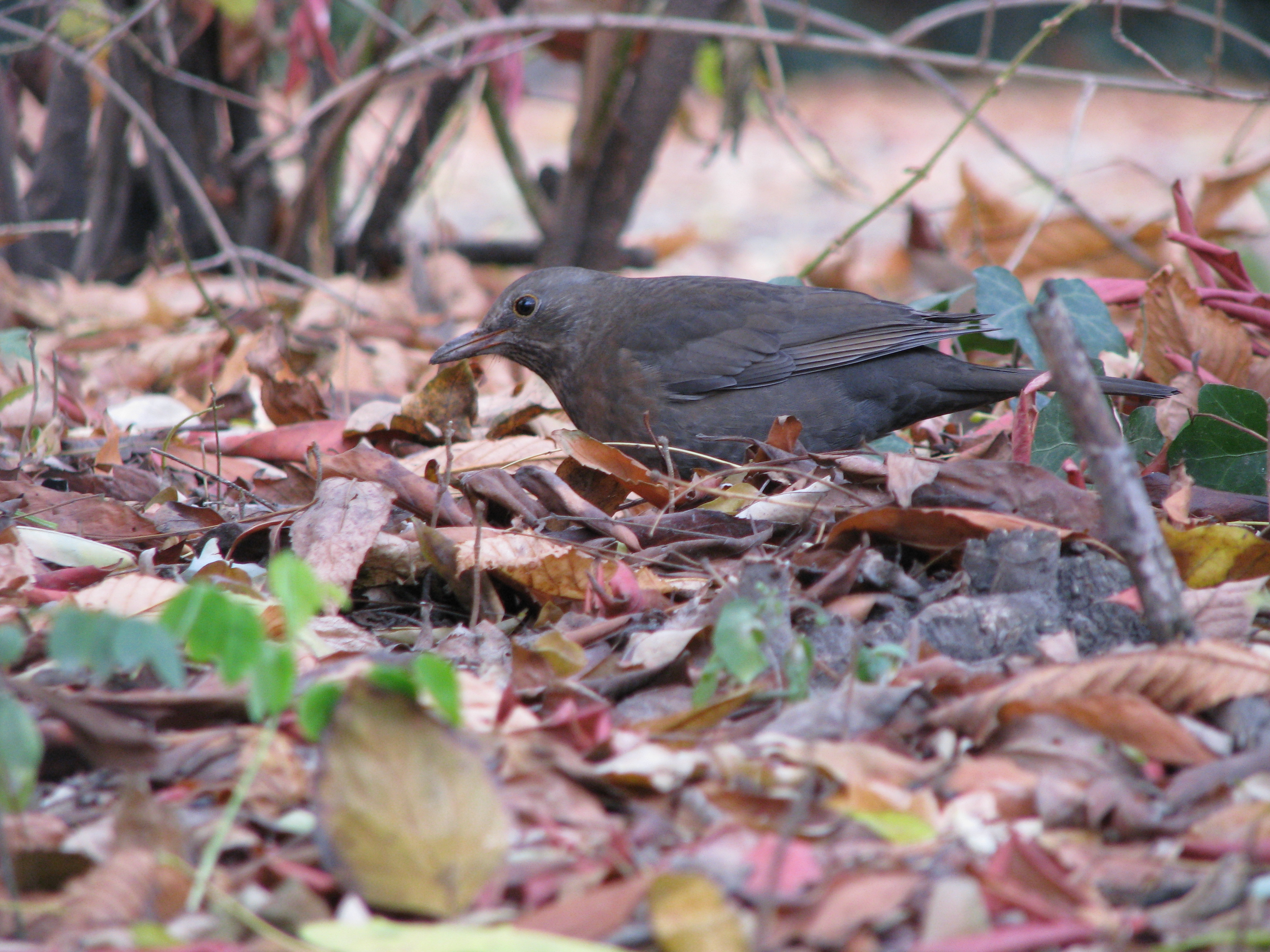 A Blackbird, Common Blackbird or Eurasian Blackbird (Turdus merula). A first year male presumably looking for food amongst autumn leaves in Budapest, Hungary